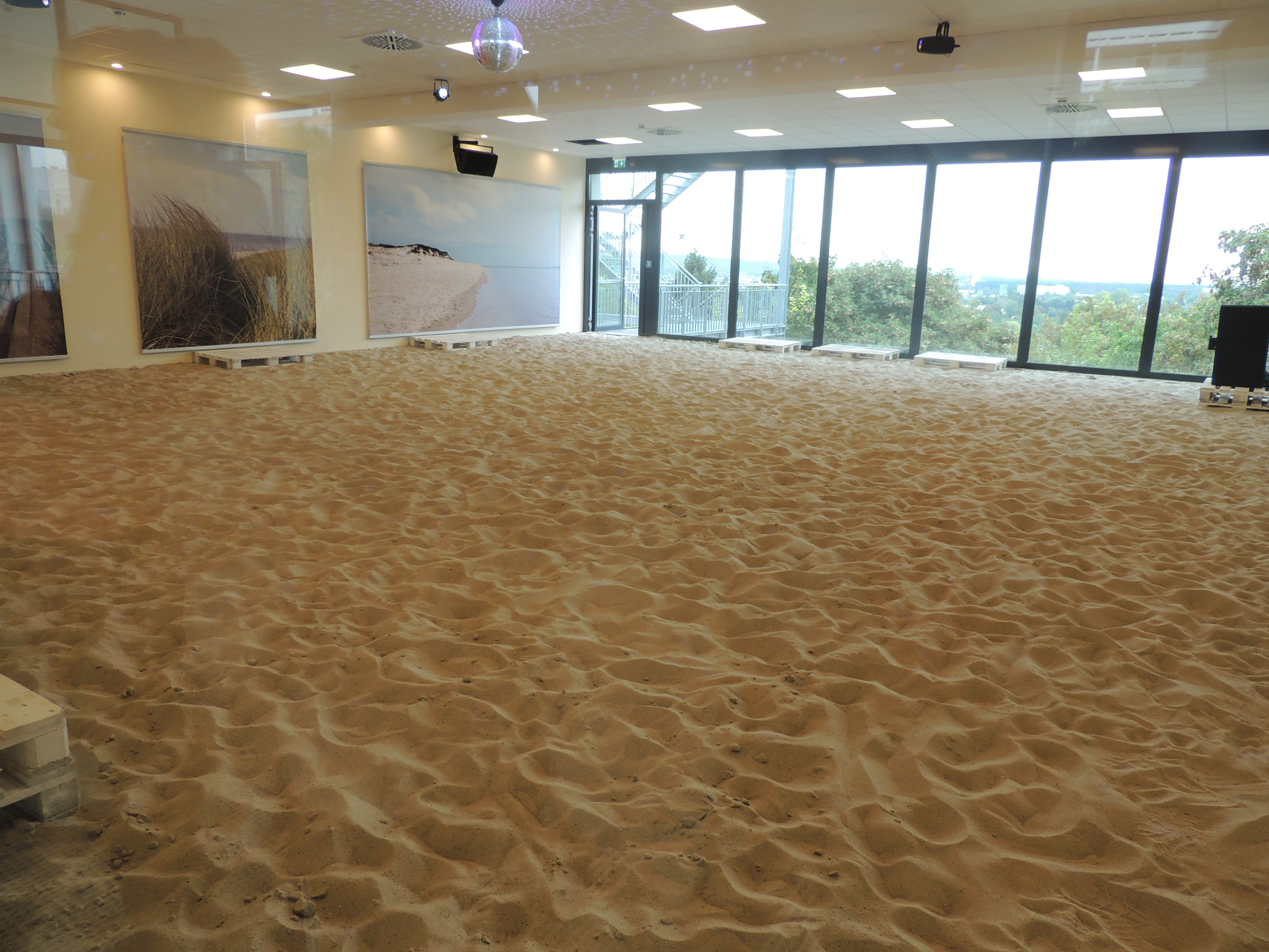 BeachGym at the new gymnasium of the Turngemeinde Bornheim in the Inheidener Street in Frankfurt am Main-Bornheim